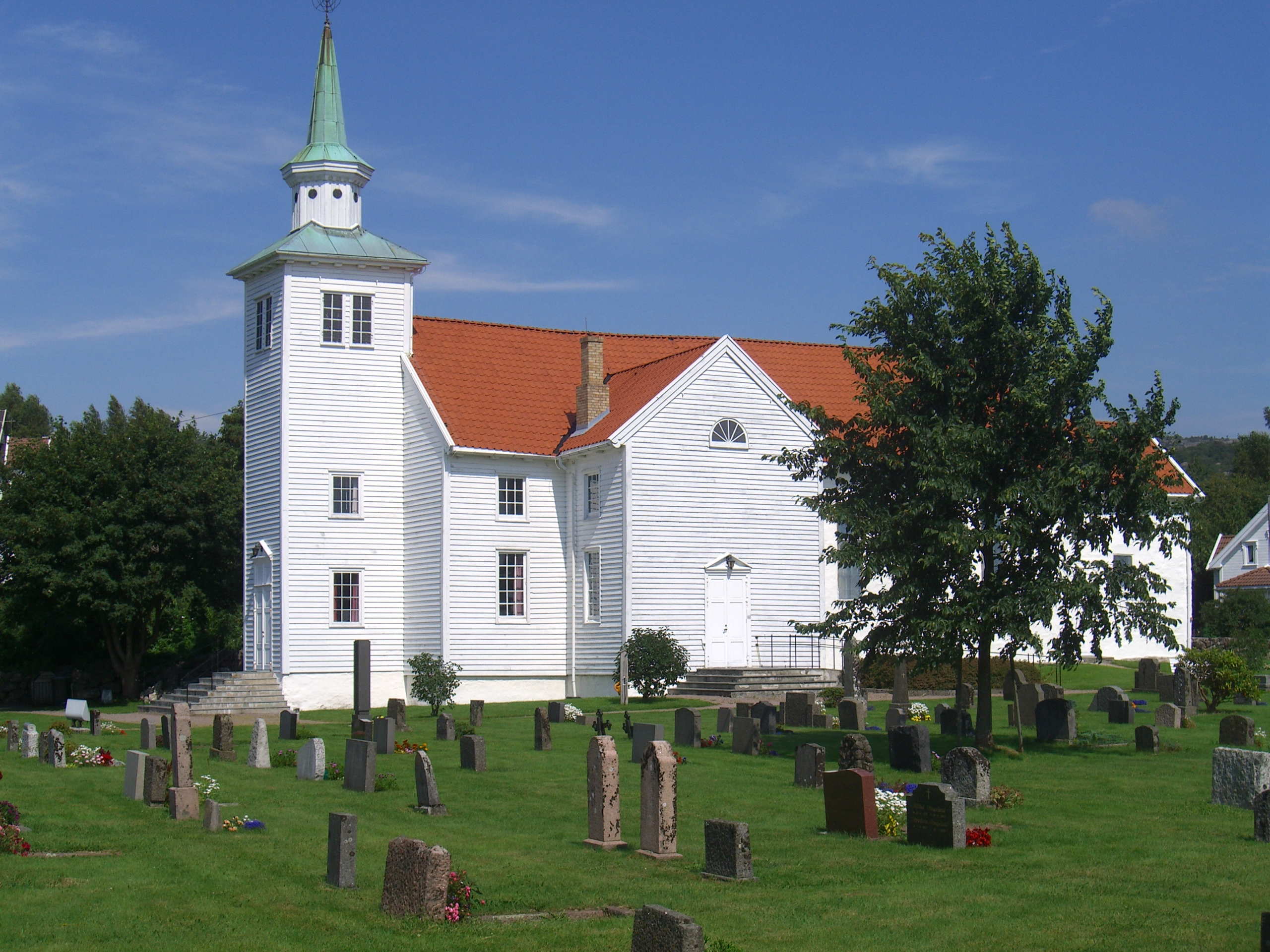 Spangereid kyrkje The Spangereid church is situated on a prehistoric burial ground. The oldest part is from medevial times (about 1100), a Roman church of southeastern style. It was changed into a crossformed church in 1840.